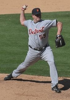 Todd Jones warming up after an injury.